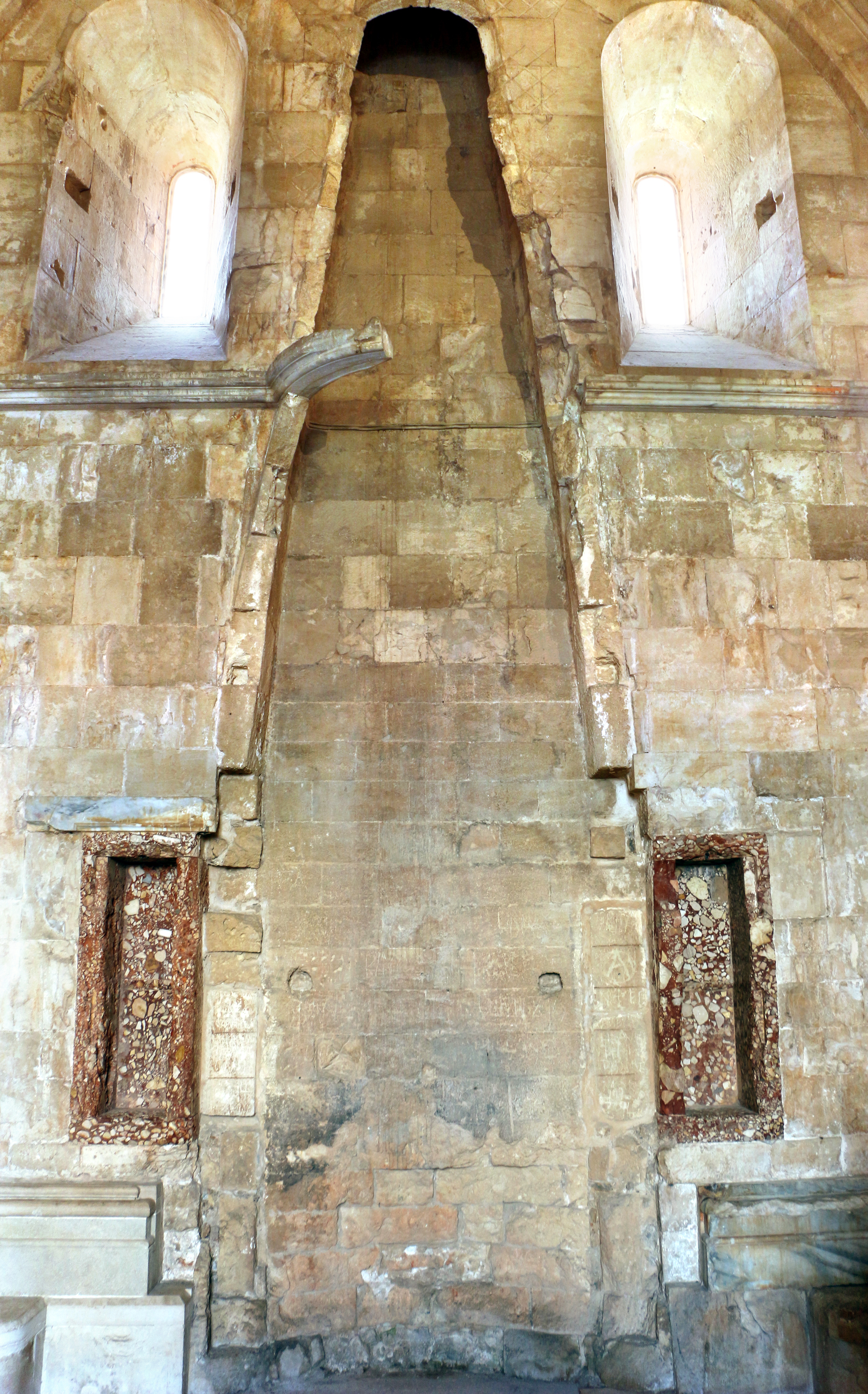 Interior of the Castel del Monte